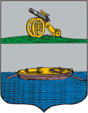 Gzhatsk (Smolensk oblast), coat of arms (1780)